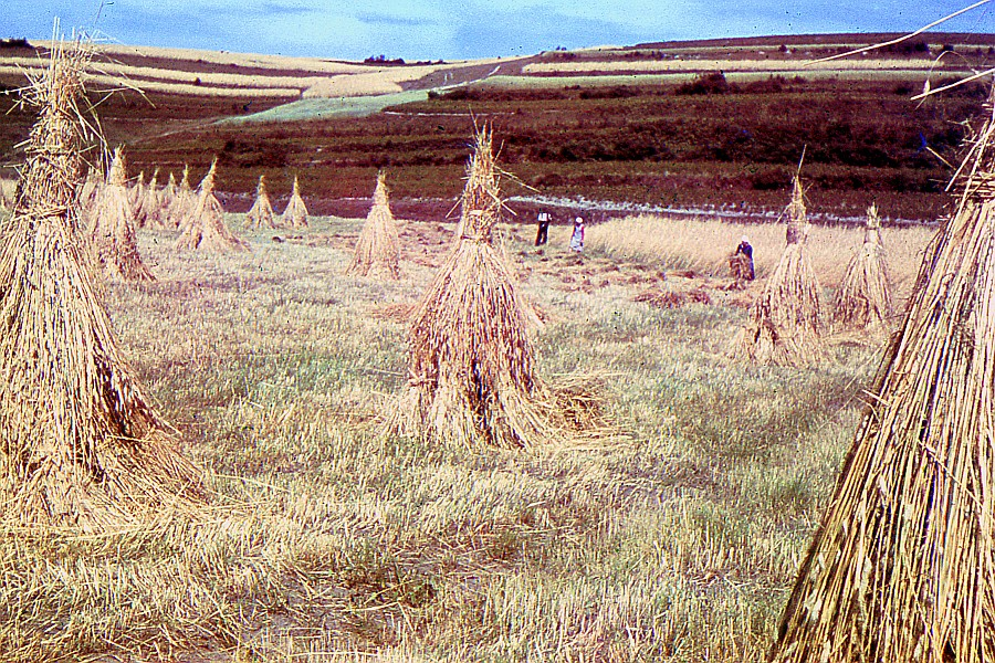 Manual harvesting in Żarki, Lesser Poland Voivodeship, 1938.